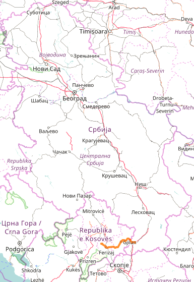 OpenStreetMap of State Road 41 in Serbia.